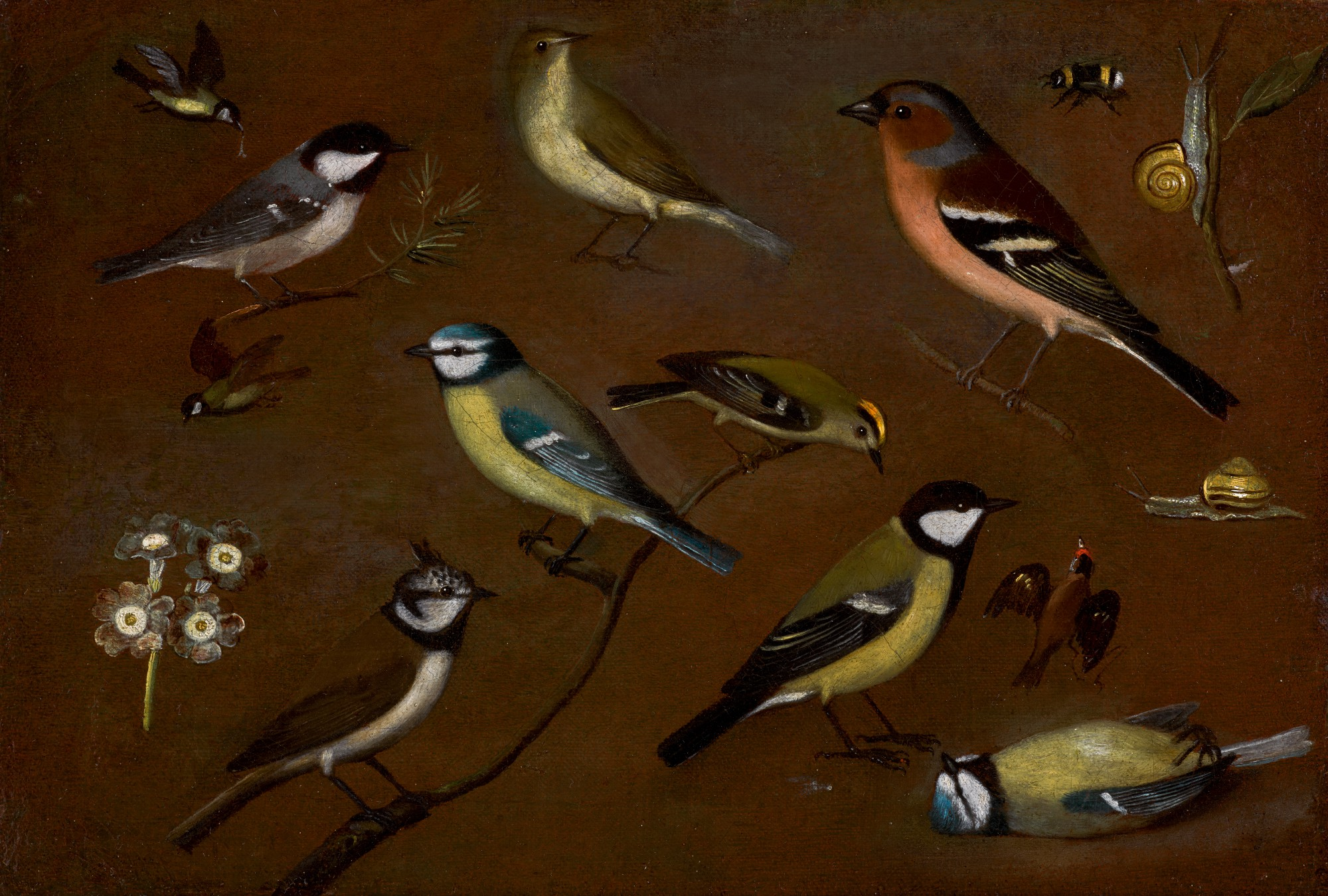 Still life of Birds, Including a Marsh Tit [sic: Coal Tit], Chiffchaff, Chaffinch, Blue Tits, Goldrcest, Lapwing [sic: Crested Tit] and a Great Tit; also incudes Common Redpoll, snails and a Primula; by Orsola Maddalena Caccia, oil on canvas, 28 x 40.2 cm.; 11 x 15¾ inches